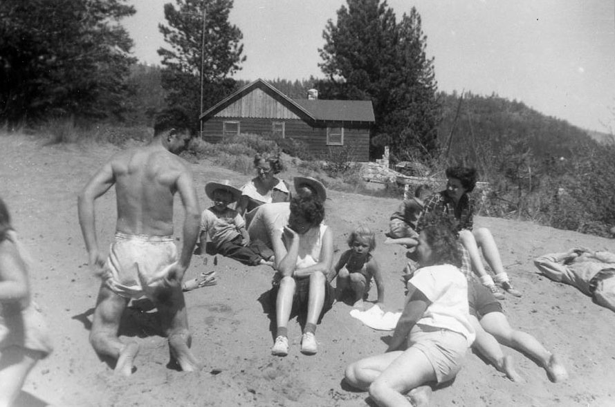 Hanging on the beach near Kings Beach circa 1945.